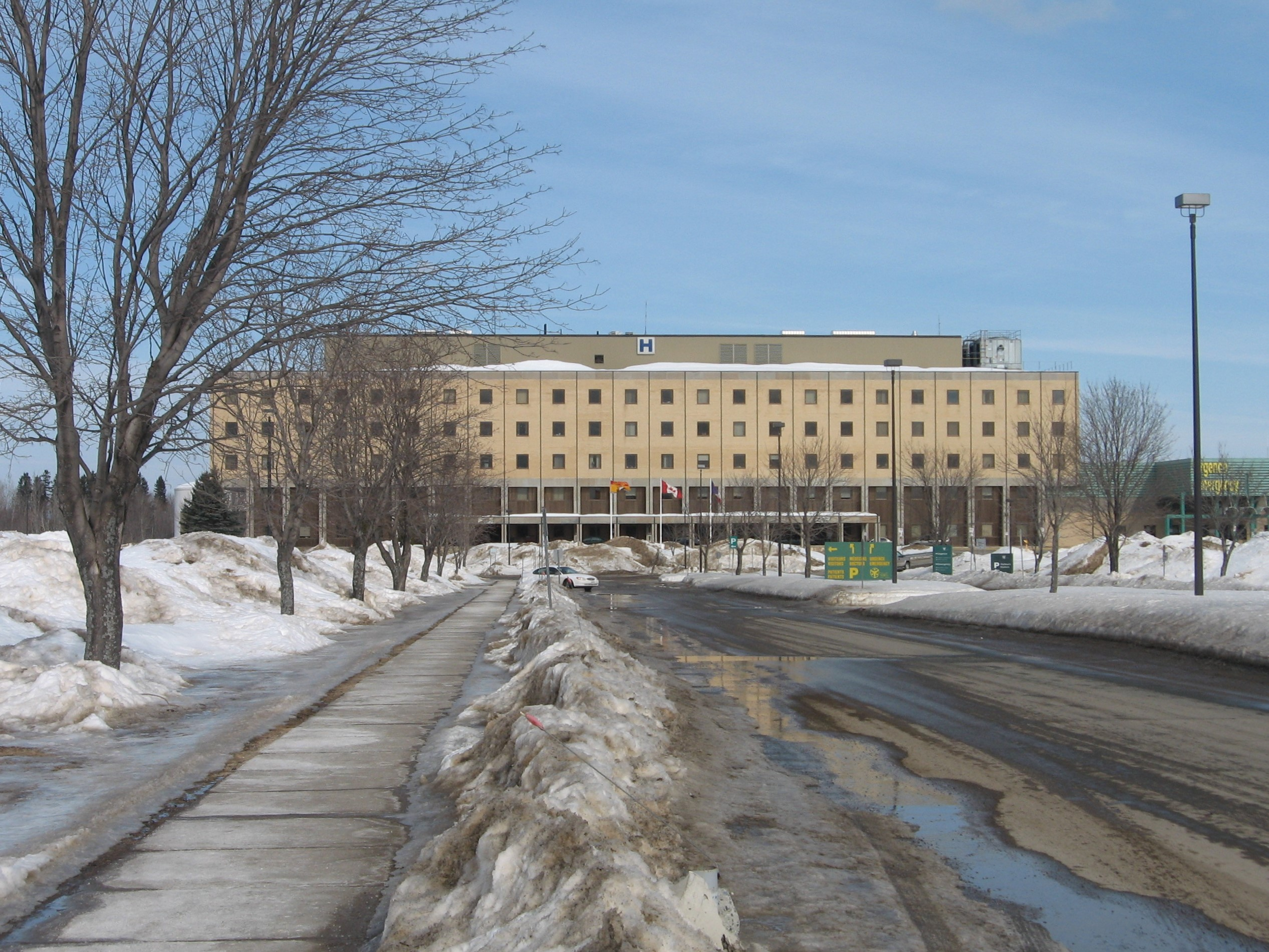 Chaleur Regional Hospital in Bathurst, New Brunswick